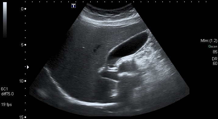 Normal gallbladder and common bile duct seen on ultrasound (Toshiba Aplio XG)